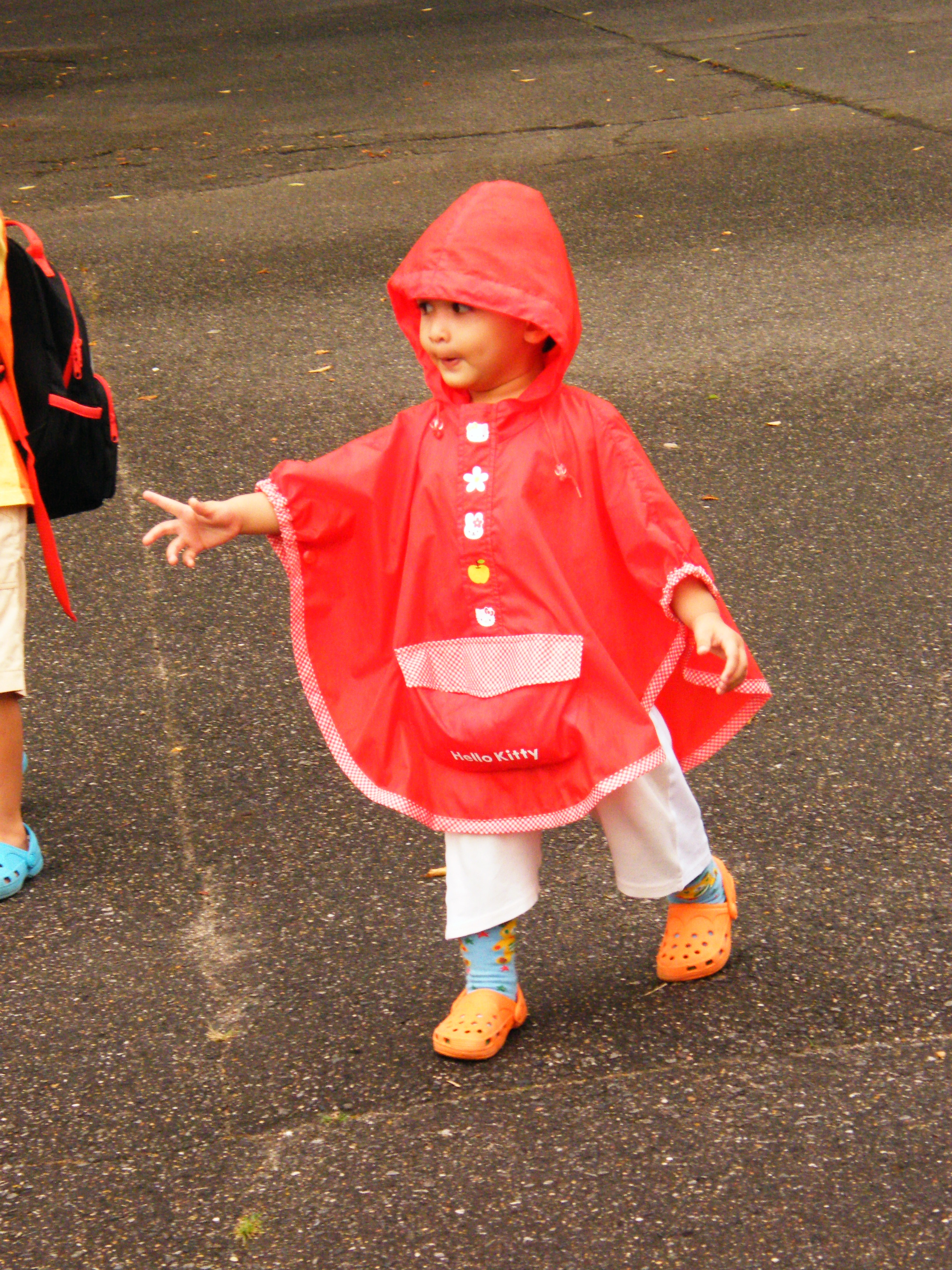 Just a 1.5hour visit to the zoo.... we head back home when the rain starts